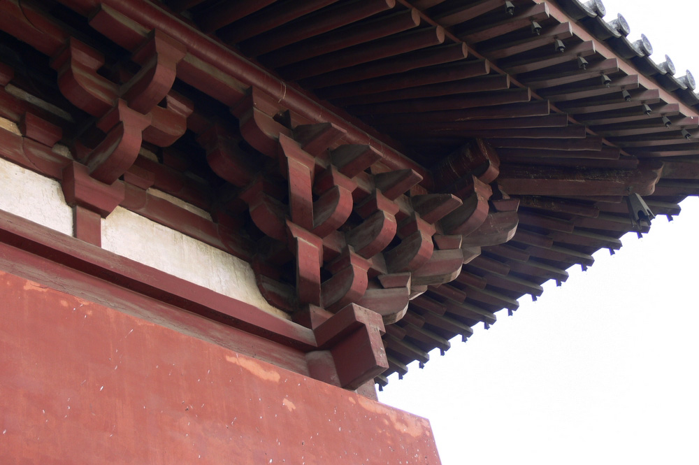 Liao dynasty Bhagavan Hall dougong